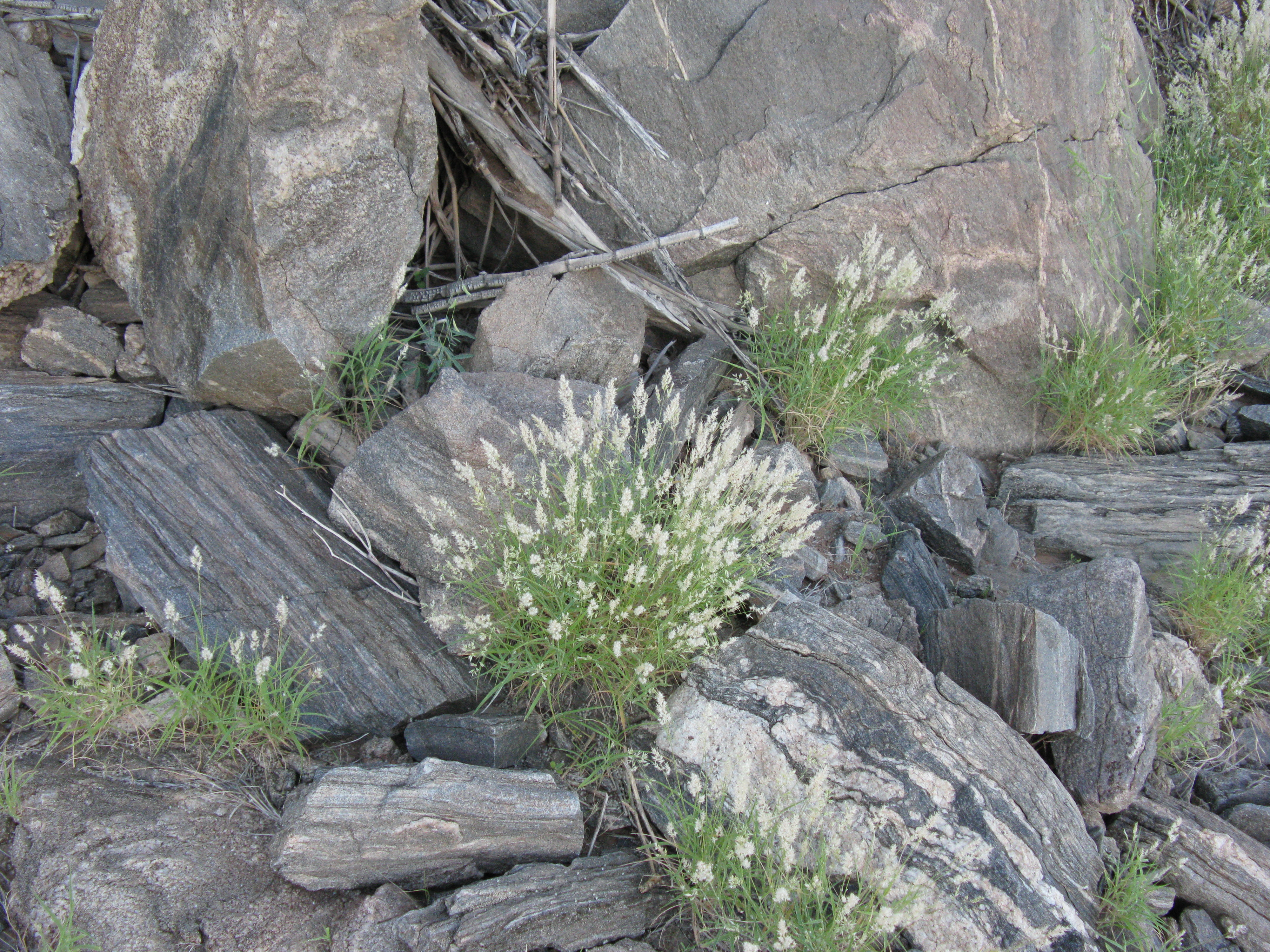 Stipagrostis obtusa flowering and seeding in a good year in the Fish River Canyon, Namibia